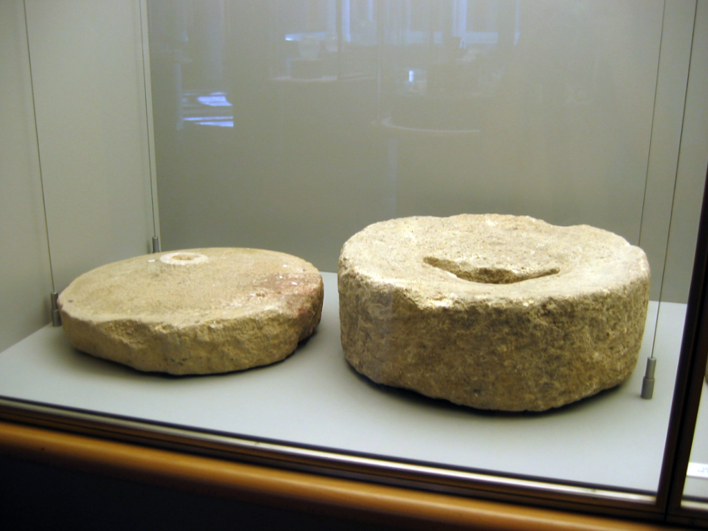 Ancient roman hand mills of the Archaeological Museum of Palencia (Castile and León).